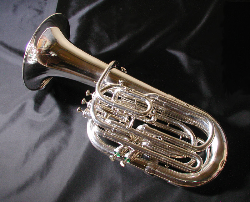 Saxhorn Basse Courtois 166